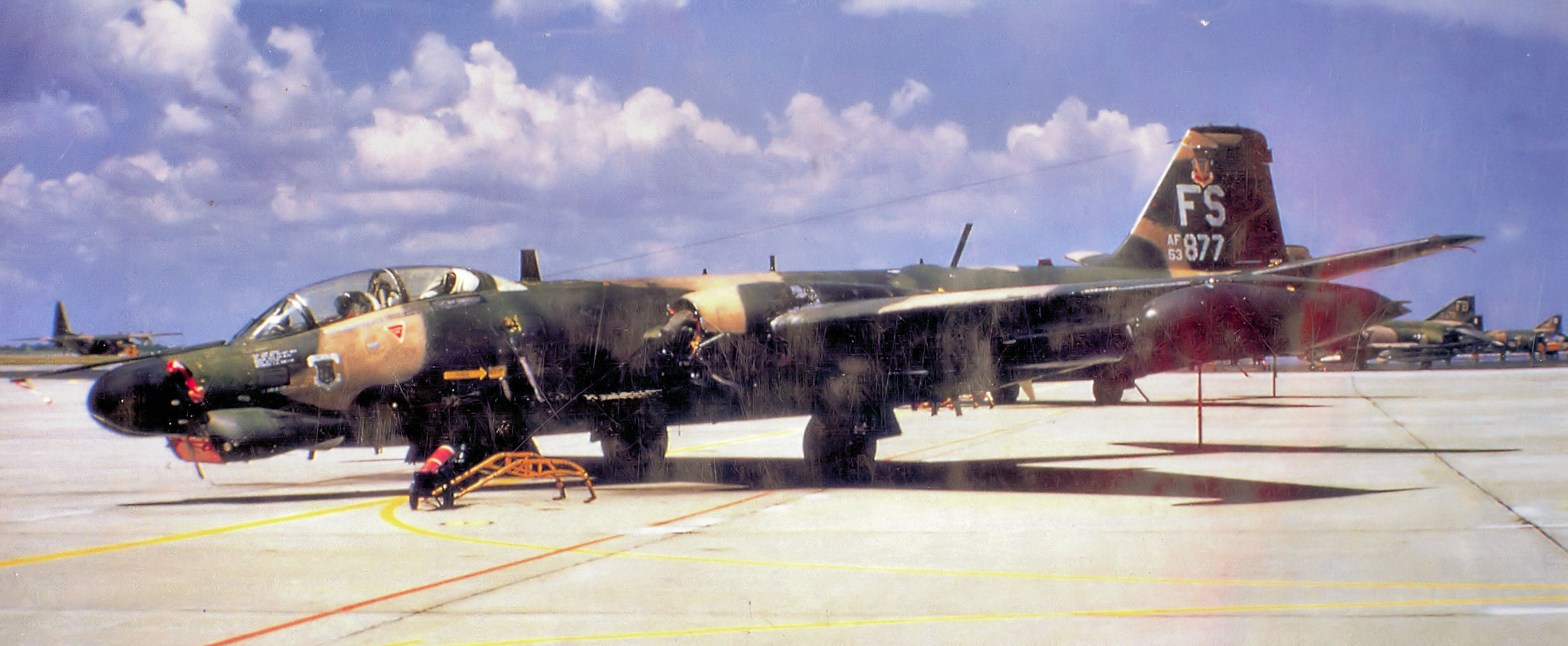 Martin B-57G 53-877 4424th Combat Crew Training Squadron McDill AFB FL 1971